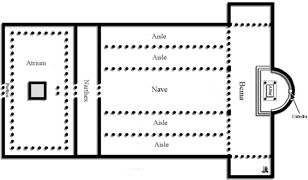 Plan of old St Peter's, showing atrium (courtyard), narthex (vestibule), central nave with double aisles, a bema for the clergy extending into a transept, and an exedra or semi-circular apse. ATTENTION! The number of columns is incorrect! NOTE: Horizontal version, English language.